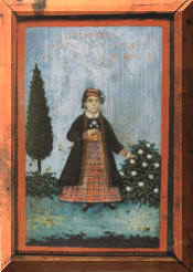 Portrait of Peristera Tsioni by Hristodoulos Ioannou.